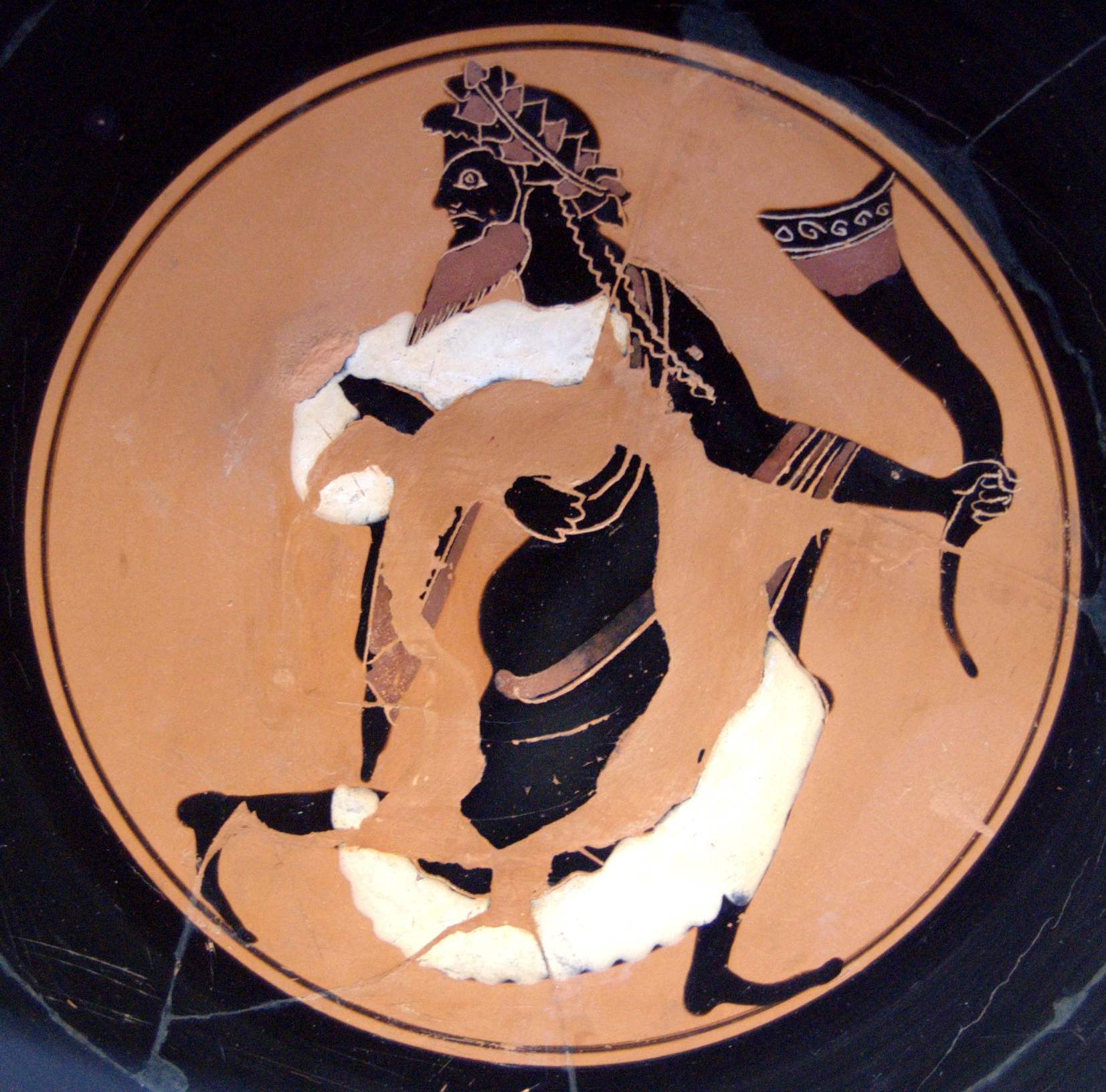 Dionysos. Tondo of an Attic bilingual eye-cup, ca. 520 BC.